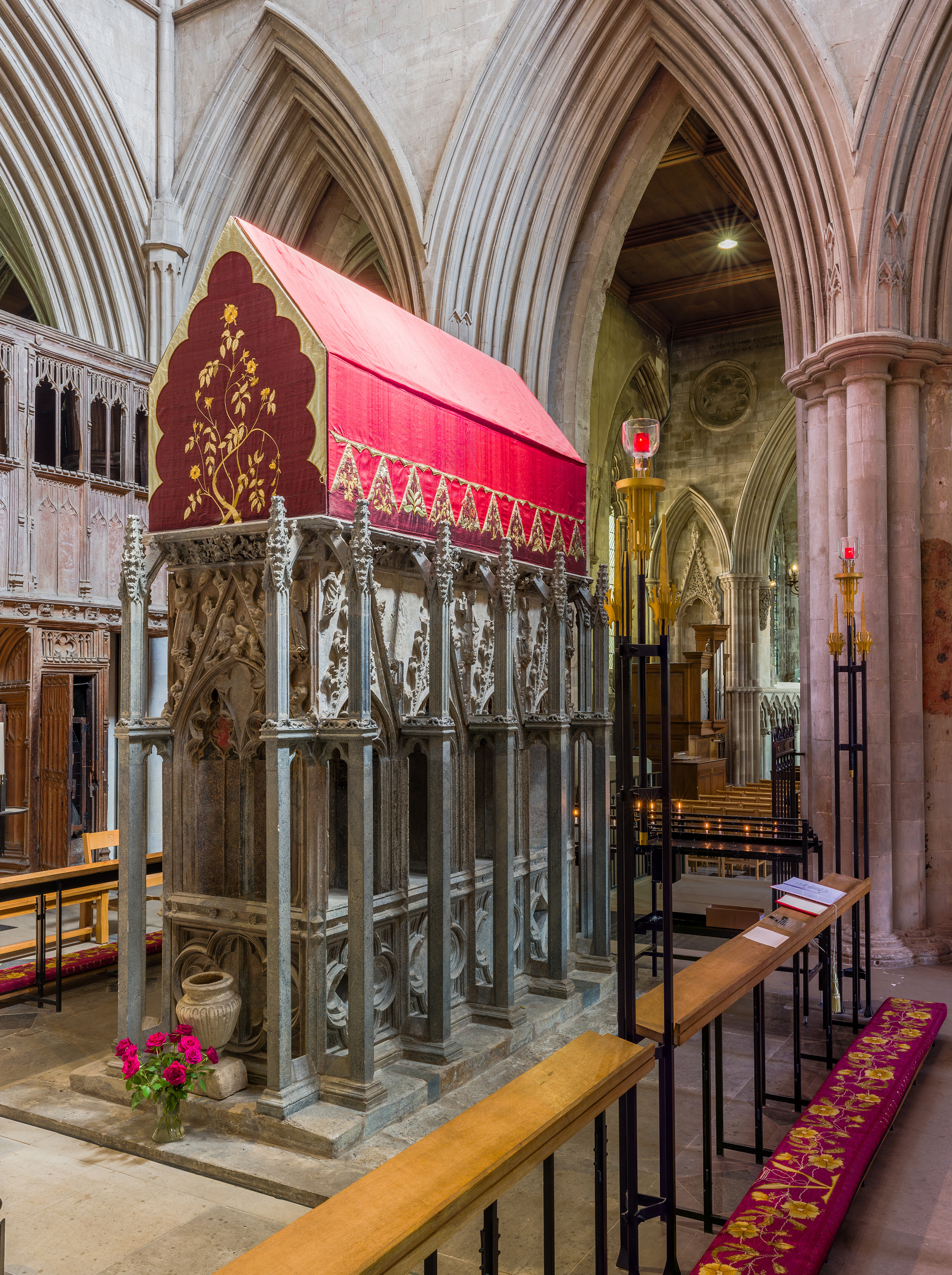 The Shrine of St Albans at St Albans Cathedral in Hertfordshire, England.